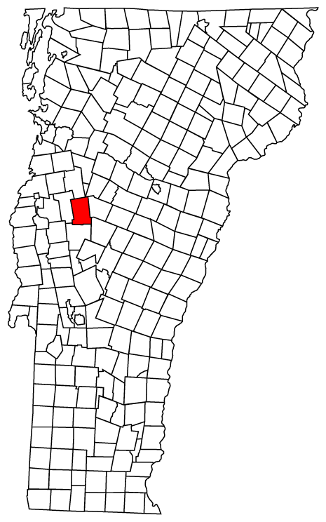 Description: Map of Vermont towns with Lincoln highlighted Source: Map created by Jared C. Benedict on 26 March 2004. Copyright: © Jared C. Benedict.